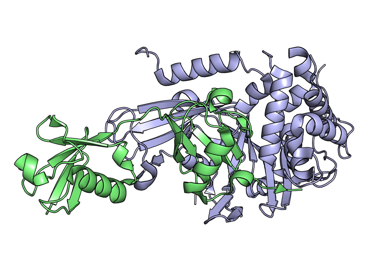 USP21 (blue) covalently linked to linear diubiquitin aldehyde (green). The C-terminus of the ubiquitin protrudes through the active site of USP21. Created using pymol, PDB code 2Y5B.